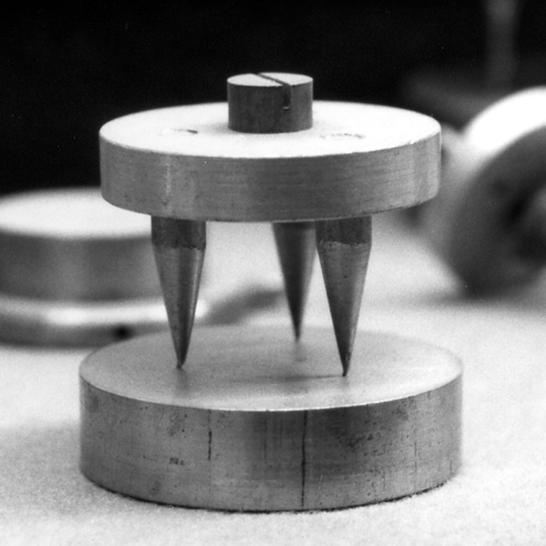 A tripod coherer, an experimental radio wave detector invented in 1902 by French radio researcher Édouard Branly . Coherers were used in the first radio receivers around 1900. In this device the radio signal from an antenna was applied between the metal 'tripod' and the bottom plate. Although most coherers functioned as "switches", turning on a DC current from a battery to record the radio signal, the tripod coherer may have been one of the first rectifying| (diode) detectors, because Branly reported it could produce a DC signal without a battery. The imperfect contact between the metal points and the iron plate, mediated by a semiconducting coating of iron oxide on the points, functioned as a crude PN junction, rectifying the radio waves. The rectified signal was applied to an earphone connected across the plates, and the "dots" and "dashes" of the Morse code transmitter could be heard. This made it one of the first semiconductor devices, a predecessor to the crystal detector and the semiconductor diode (See E. Branly (1902) "A Sensitive Coherer", Comptes Rendes, Vol. 134, p. 1197. Information from John Ambrose Fleming (1919) The Principles of Electric Wave Telegraphy and Telephony, 4th Ed., London, Longmans, Green & Co. p.374)